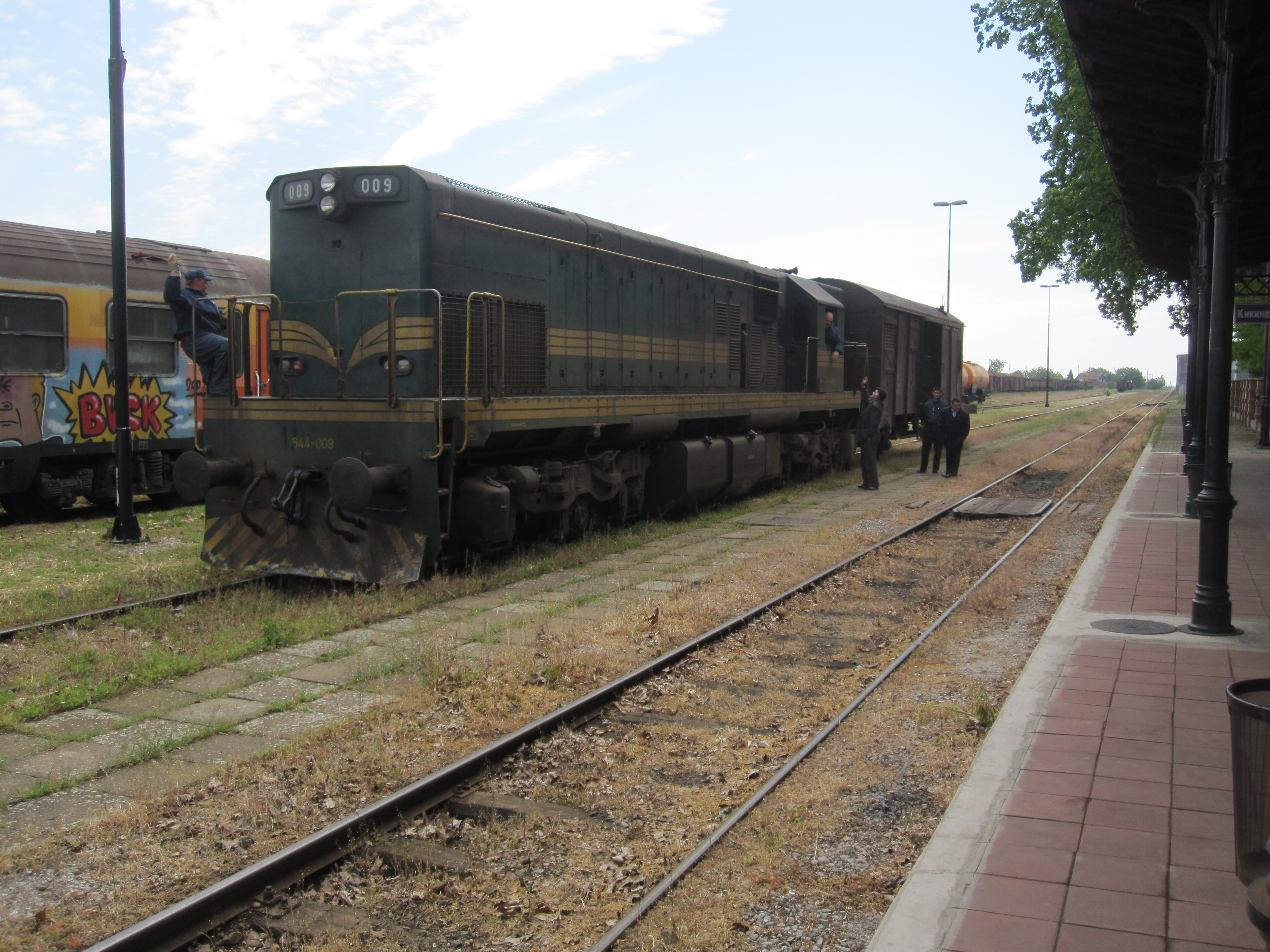 A short freight is seen at Kikinda. Just a handful of "Šinobus" DMU workings including the twice per day cross-border to Jimbolia in Romania are all this station sees. Sadly, the loco-hauled stock seen to the left is all stored out of use. This area of Serbia does not see any loco hauled passenger trains.